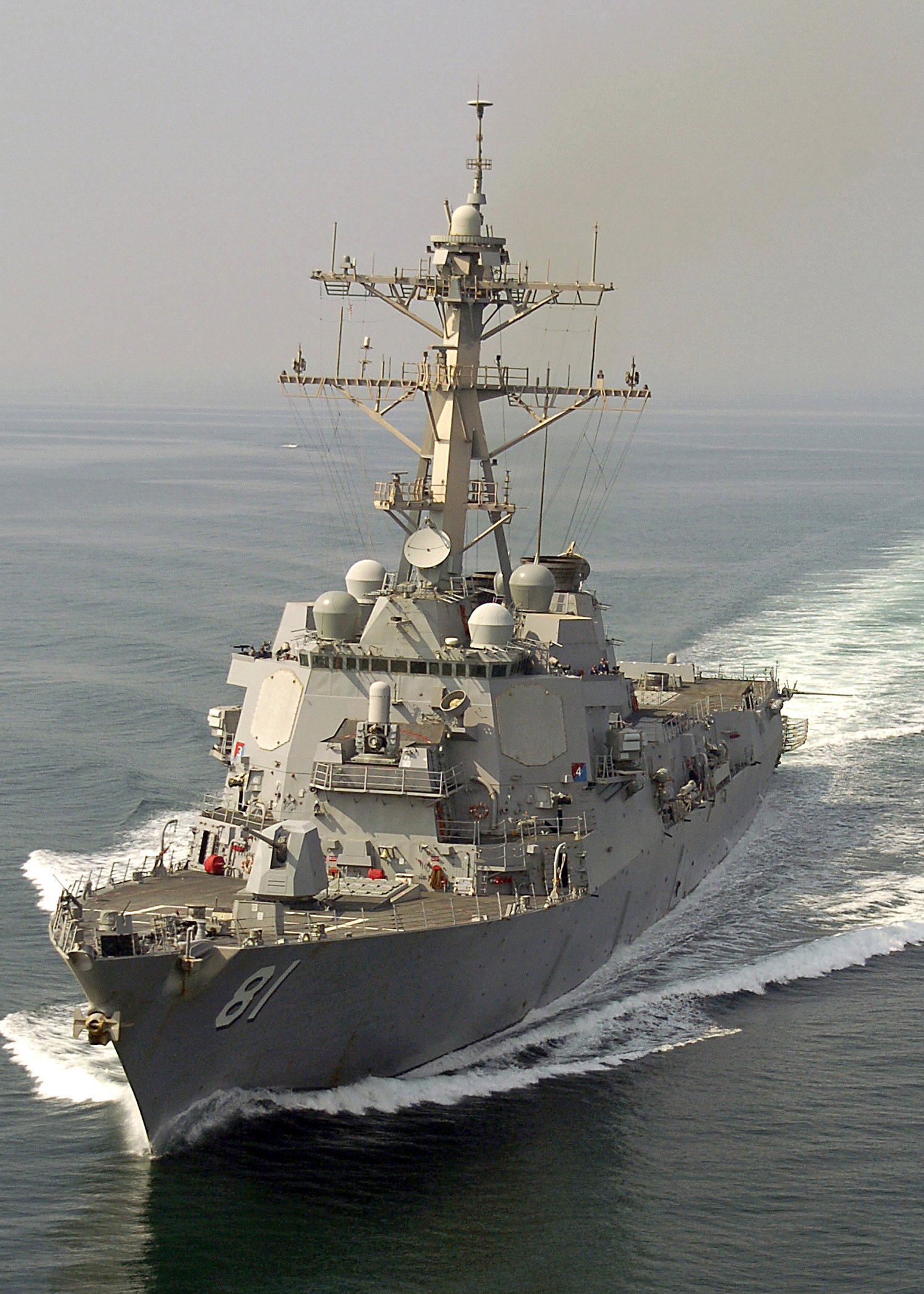 The guided-missile destroyer USS Winston S. Churchill (DDG 81), assigned to the U.S. 5th Fleet, patrols the Persian Gulf.